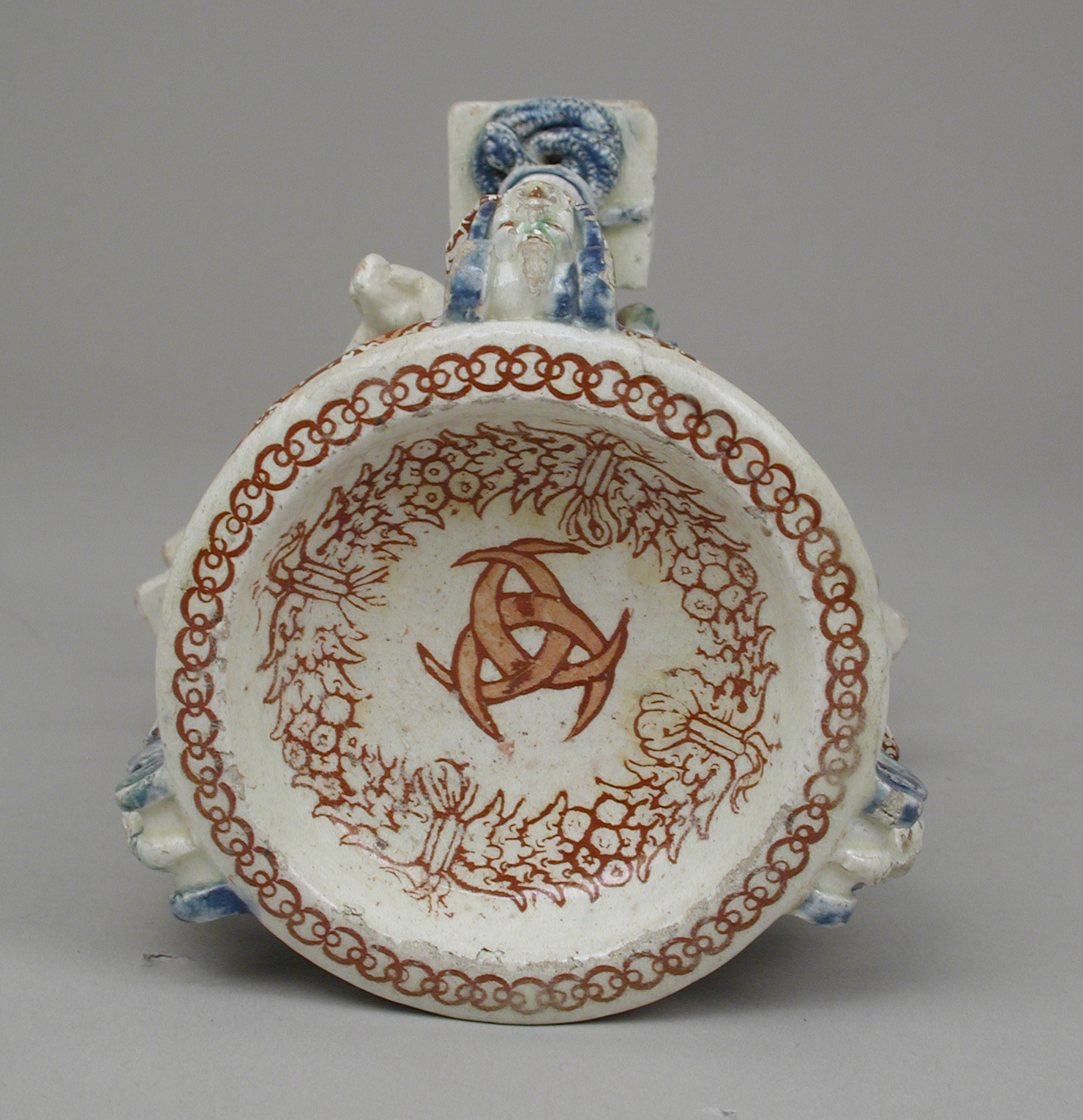 French, Saint-Porchaire or Paris; Salt; Ceramics-Pottery